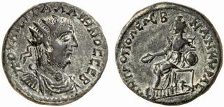 coin from reign of Roman emperor Gallienus (253-268), minted in Ancyra. Reverse: MHTPOΠOΛEΩC BN ANKYPAC